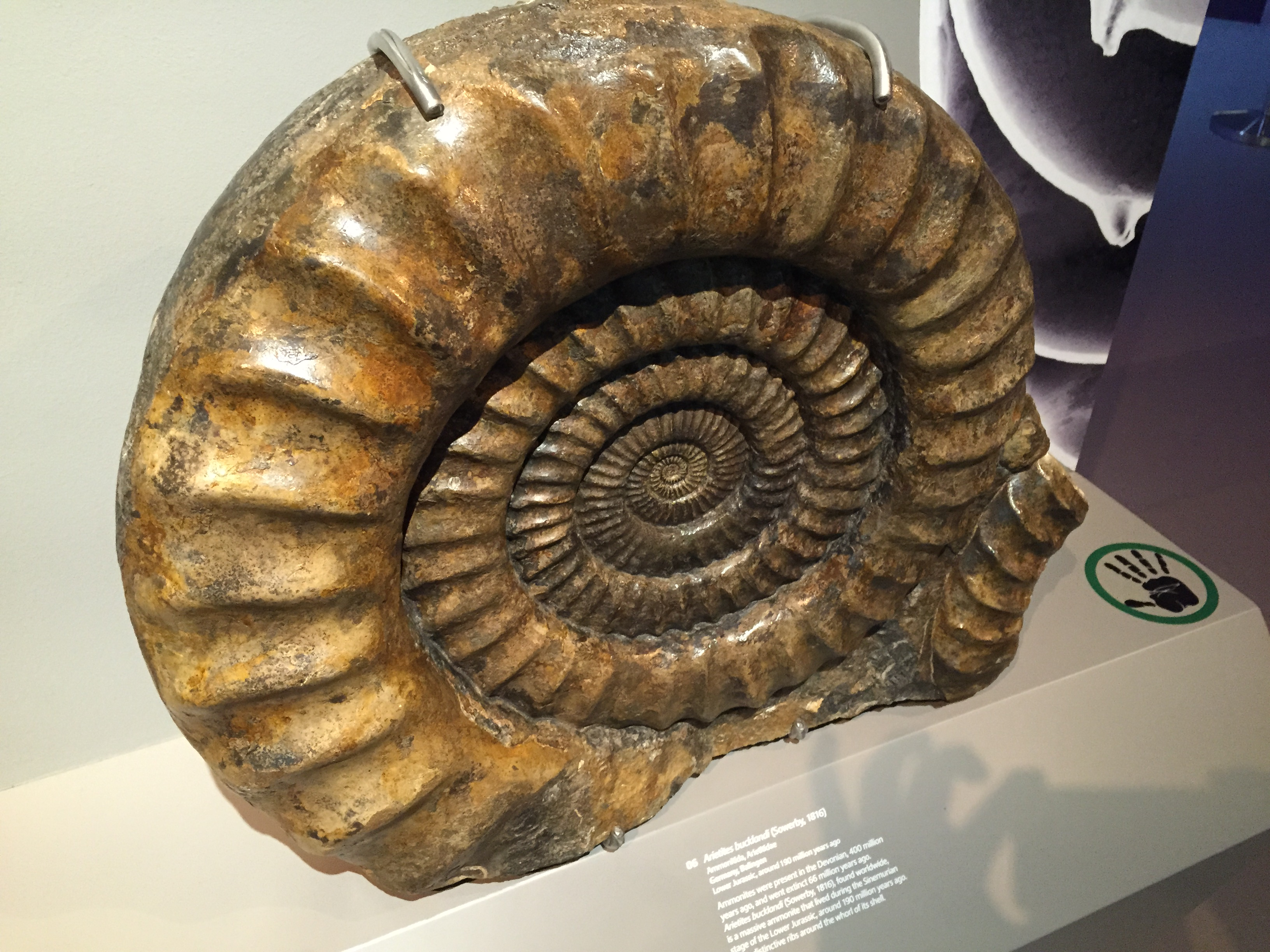 An Arietites bucklandi ammonite at the Lee Kong Chian Natural History Museum, National University of Singapore. Collected from Balingen, Germany, it dates from the Early Jurassic (about 190 million years ago).